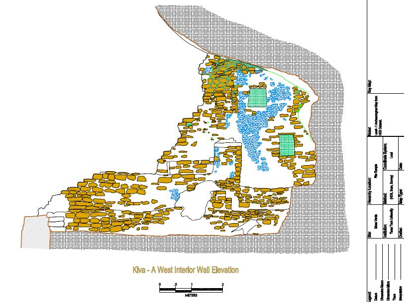 This is a section view of Kiva A in Mesa Verde's Fire Temple, cut from laser scan data. Kiva is a Puebloan term for ceremonial rooms, and most of the Kivas at Mesa Verde are round in form and subterranean. The entire courtyard of Fire Temple itself is defined as a Great Kiva by both modern Puebloans such as the Hopi and by archaeologists due to its design and entirely non-domestic function. However, since Fire Temple was at least partially built to conform to the dimensions of the cliff alcove in which it was built, it is neither round in form nor truly subterranean. Along the southern terminus of Kiva A are the foundations of an original wall or a stepped bench. Archaeologists have disagreed over the years as to whether this represents an enclosure to the Fire Temple's Kiva, or whether it would have been open at the front perhaps to keep its prominent fire hearth visible from some distance away. Kiva A's walls were originally covered in white paint, with black and red geometric designs and symbols on it that are very similar to those found on black and white pottery found in Mesa Verde from the same time period. Due to exposure to the elements over time only scattered remnants of this paint remain intact and most of the designs are faded.